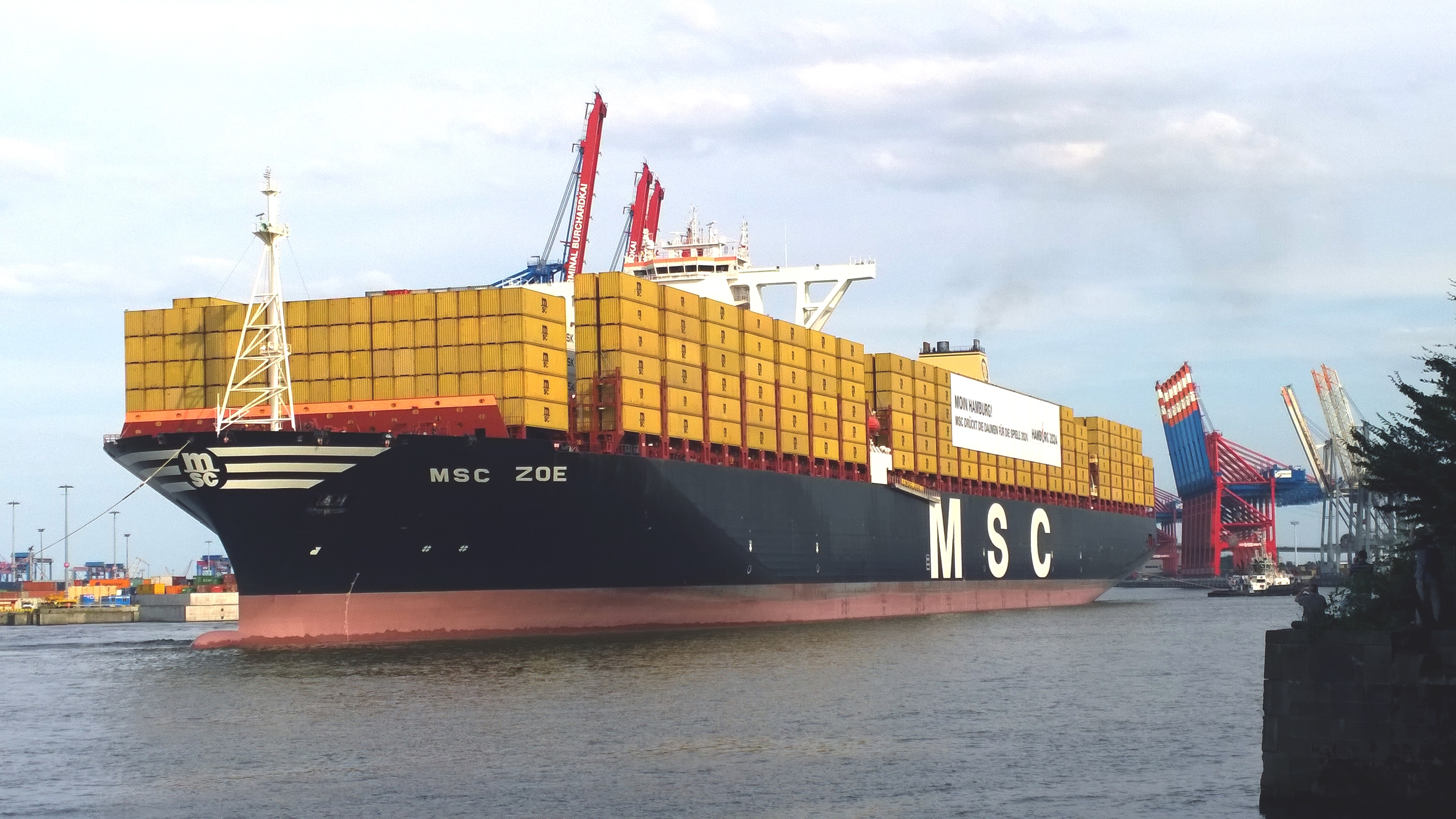 The new containership MSC Zoe is dragged backwards to the Euro Gate Terminal